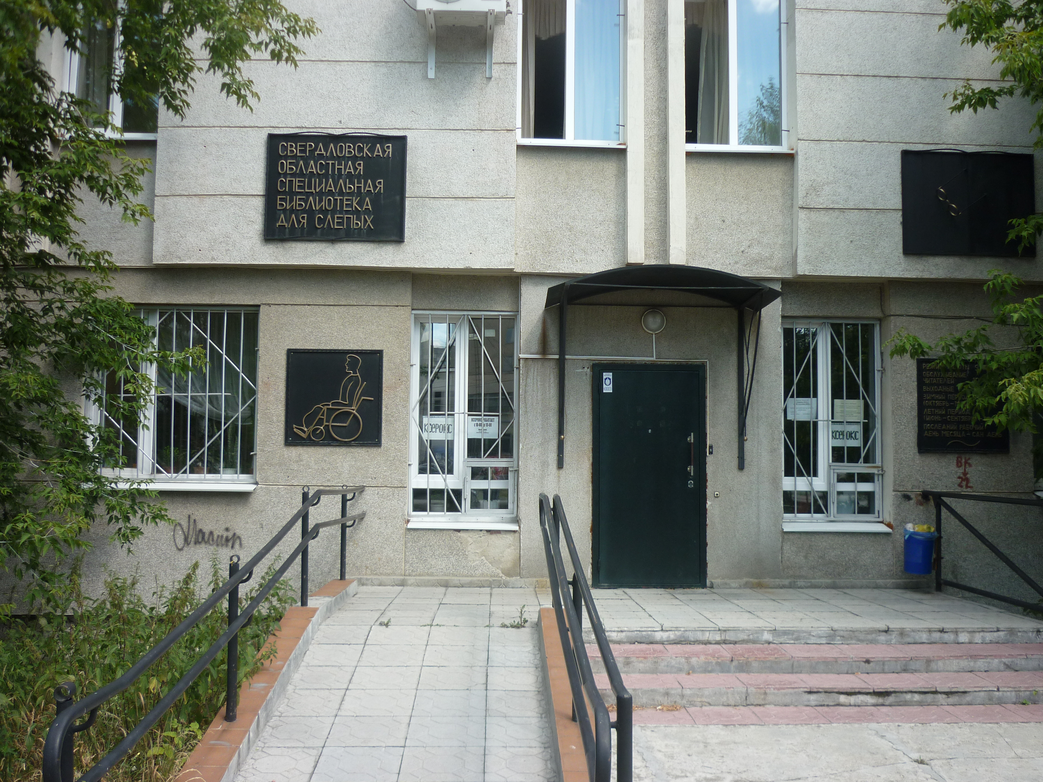 56.812781, 60.5976042 Yekaterinburg library for the blind